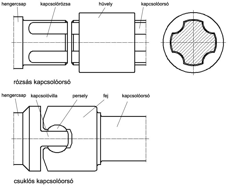 Coupling shafts